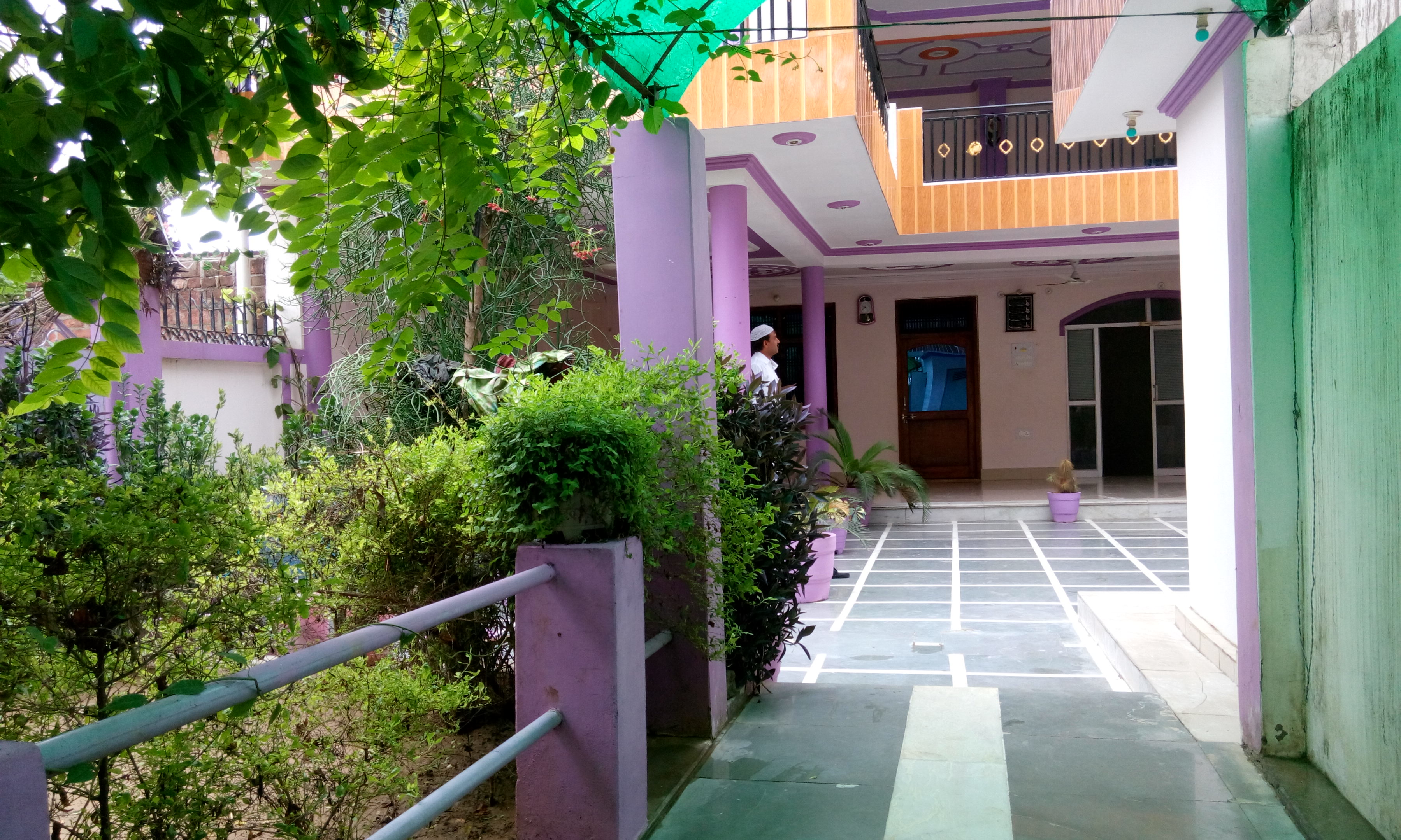 Nasiruddin House is considered as the most beautiful house of the village.